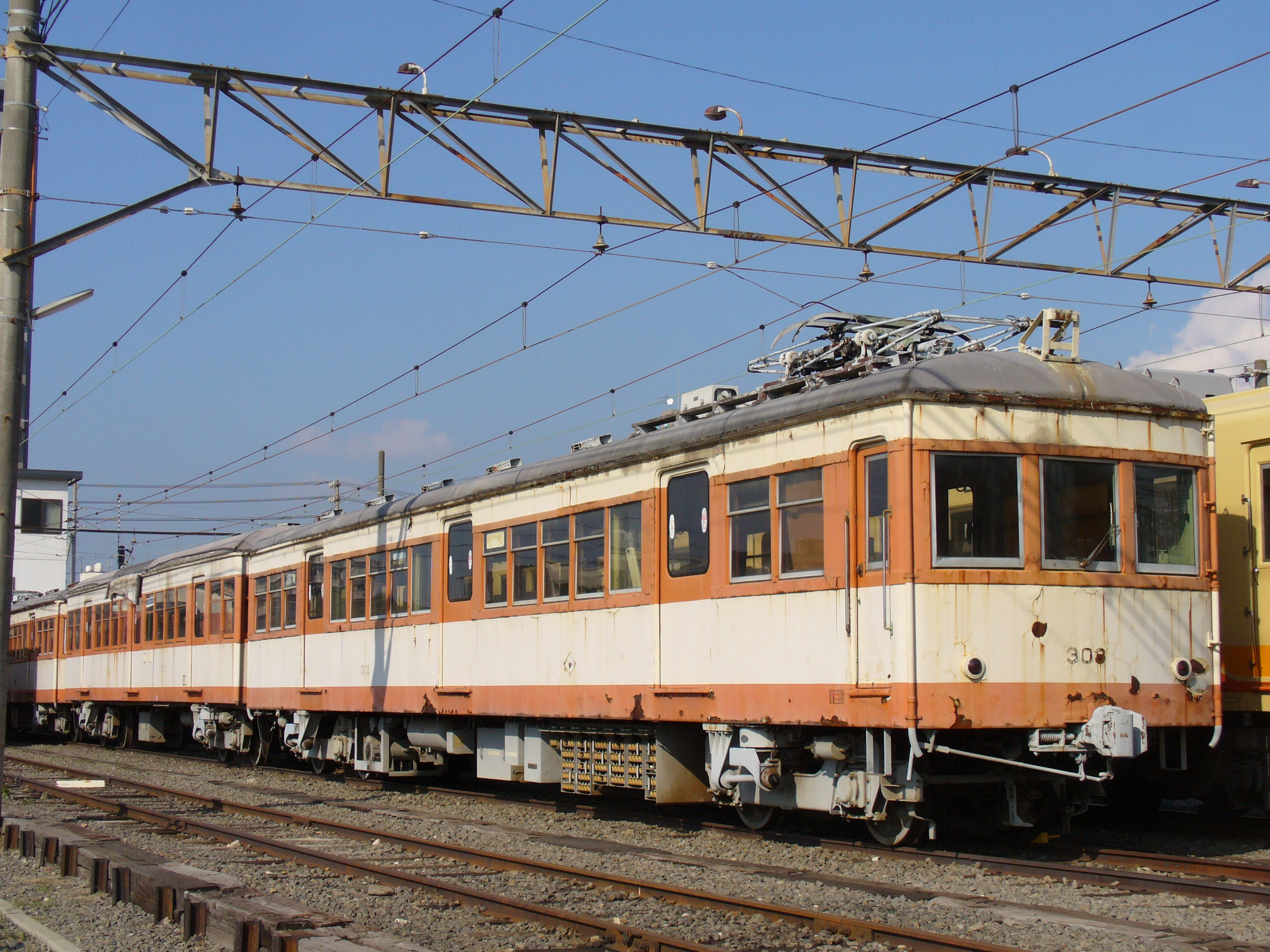 Iyotetsu 300 series EMU set 303